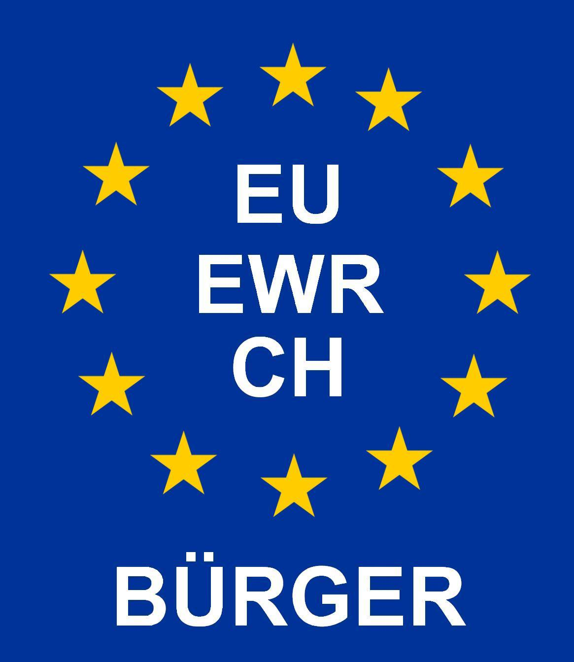 Sign indicating a border control lane (entries) for EU-, EEA- and Swiss citizens upon a Schengen external border according to Annex III of the Regulation (EC) No. 562/2006 of 15 March 2006 (OJ L 105, 13.04.2006, p. 19).